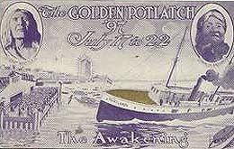 Golden Potlatch card (Seattle, Washington, circa 1911) with images of Chief Seattle and his daughter Princess Angeline.